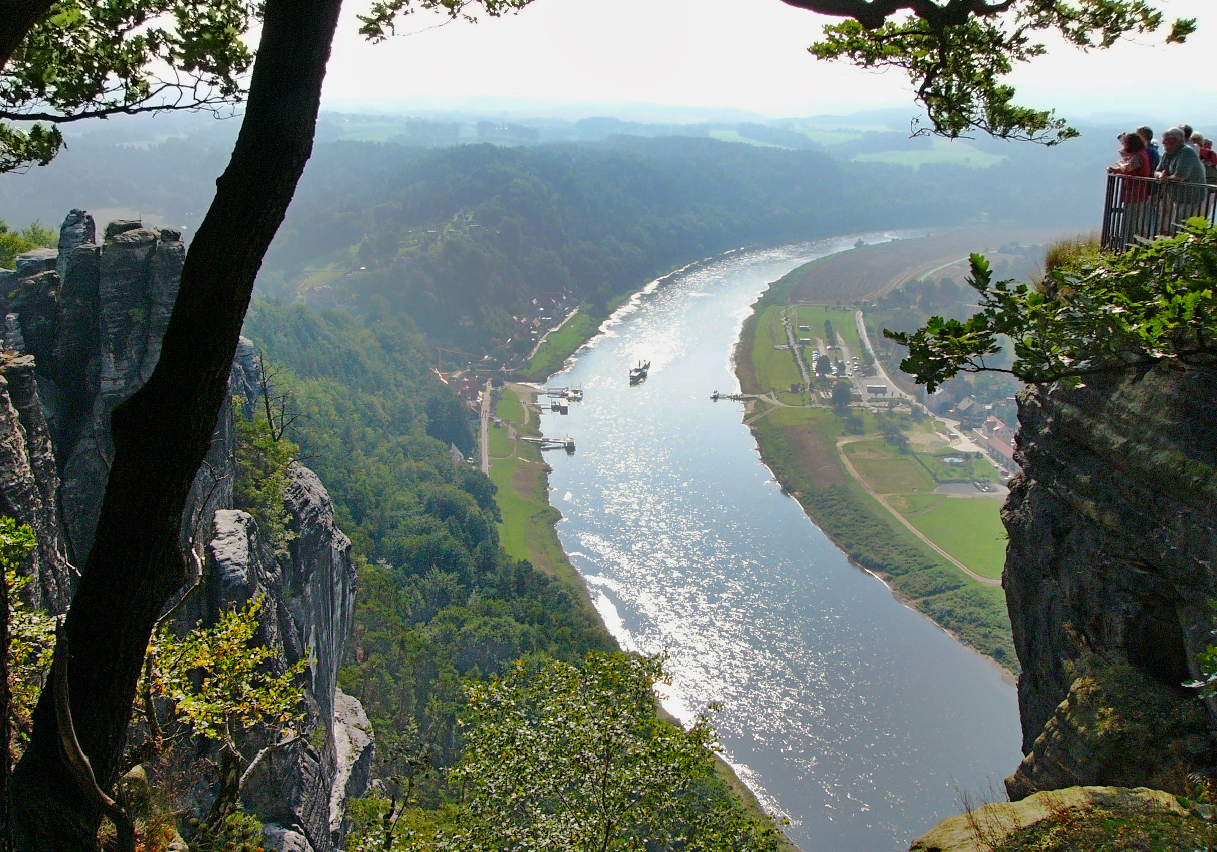 View from the Bastei to Elbe River in Saxony, Germany.